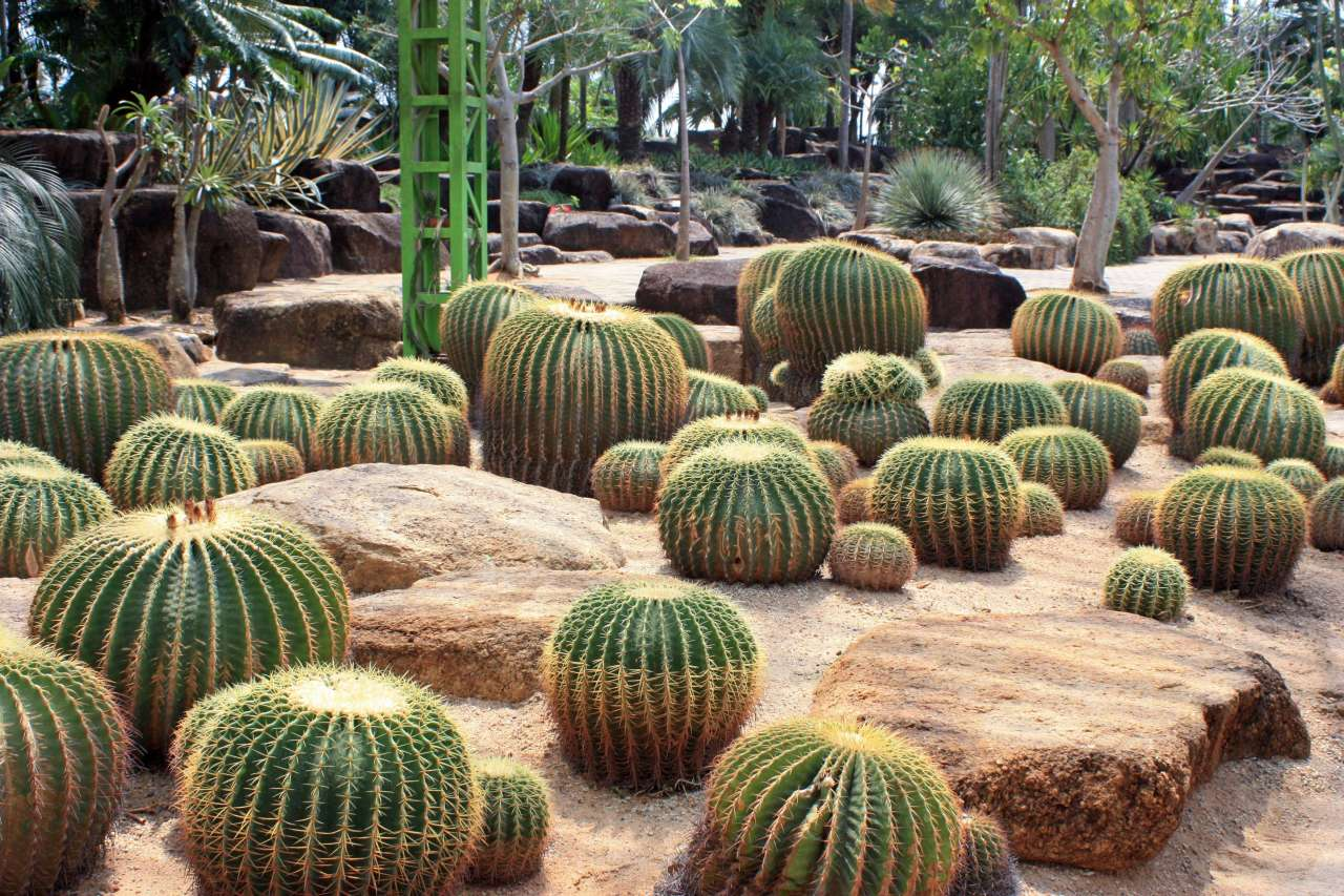 Nong Nooch botanical garden, Cactus garden, Thailand